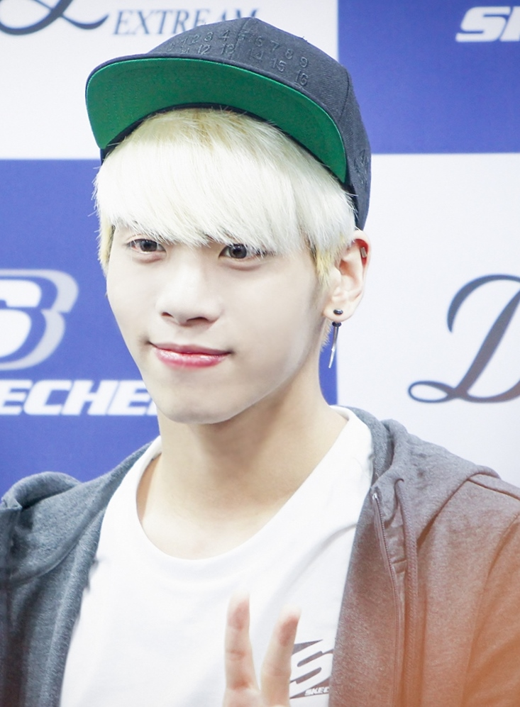 Jonghyun at a fansign of company Skechers on February 20, 2014.